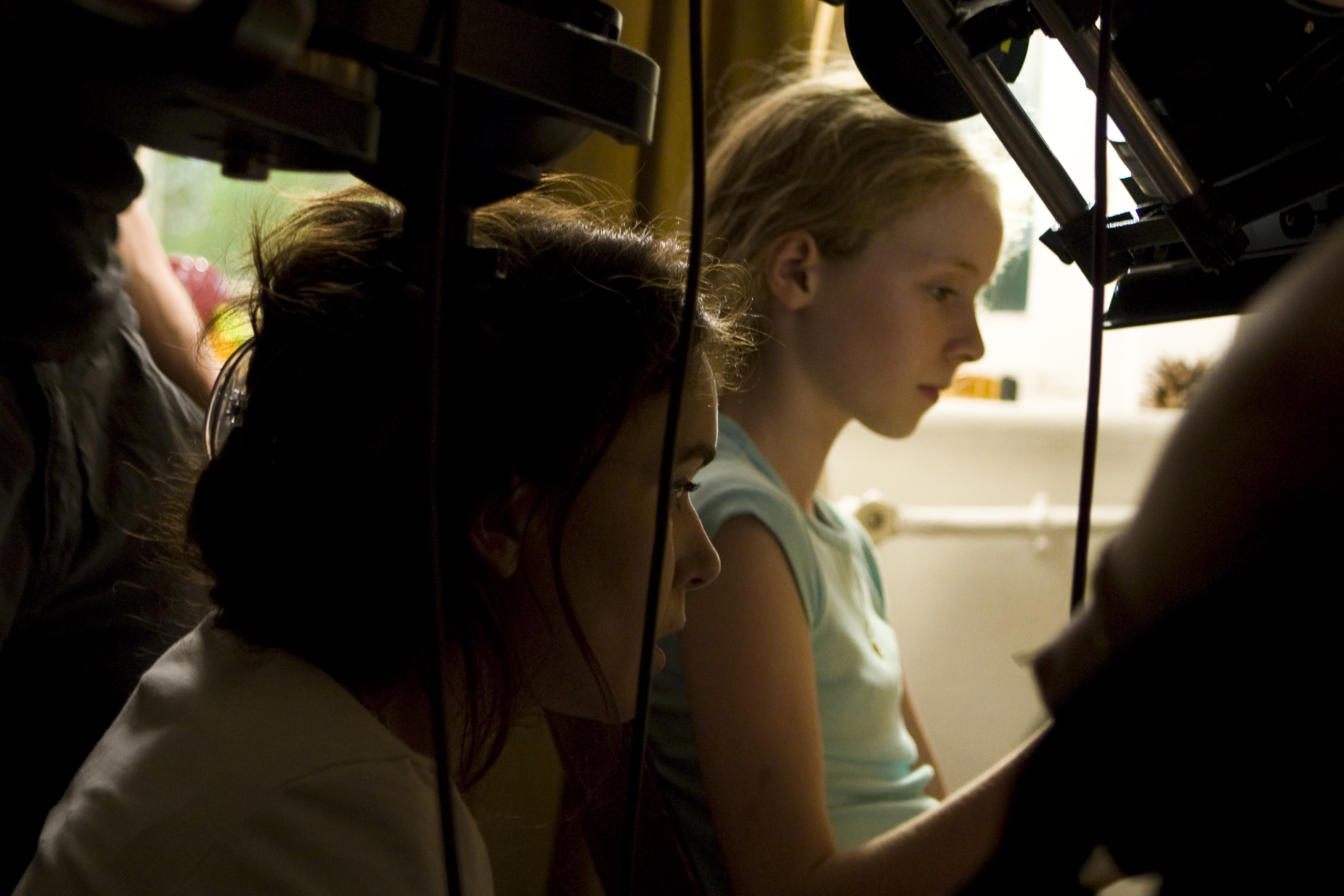 La réalisatrice Eléonore Faucher et la jeune actrice Zoé Duthion sur le tournage du film Gamines.